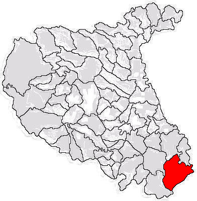 Map of limits of commune in Vrancea County